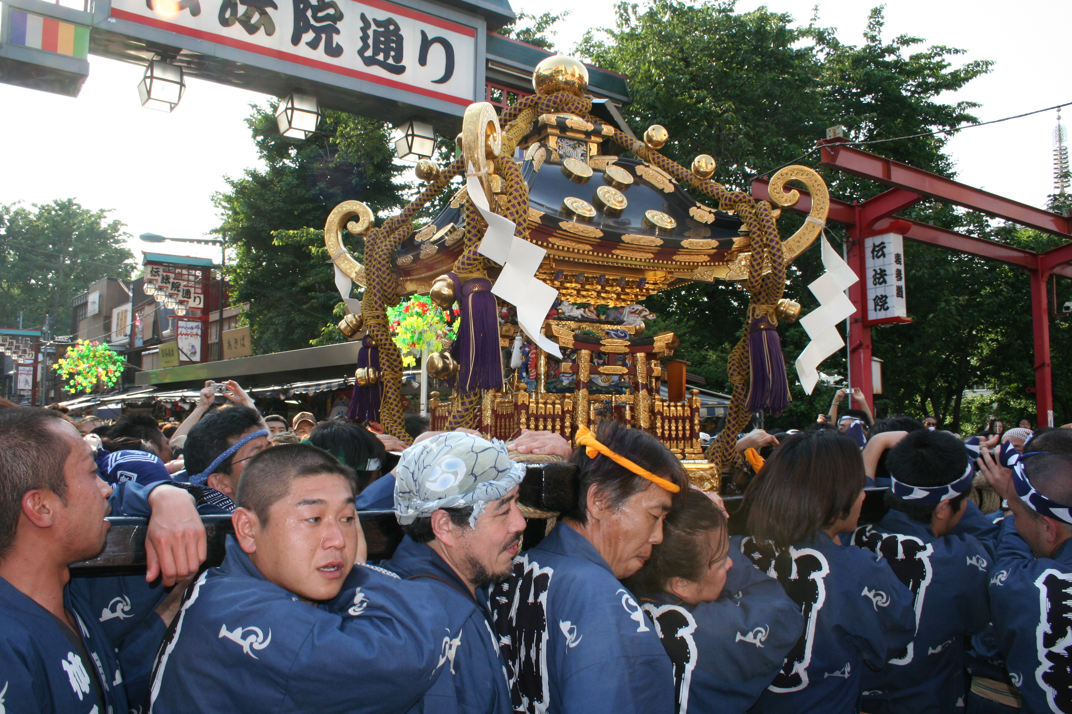 Asakusa Sanja Matsuri - a portable Shrine is carried through the streets of Asakusa, Tokyo